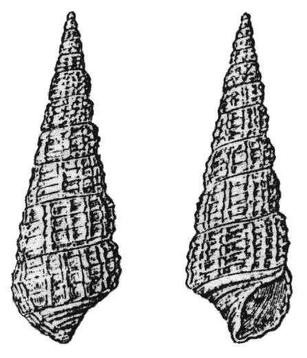 Bittium reticulatum, adult specimen; 'Guide fossil' for the Eemian interglacial; From Eemian deposits in the type area of the Eemian interglacial in The Netherlands; figured by the person who introduced the Eemian stage.